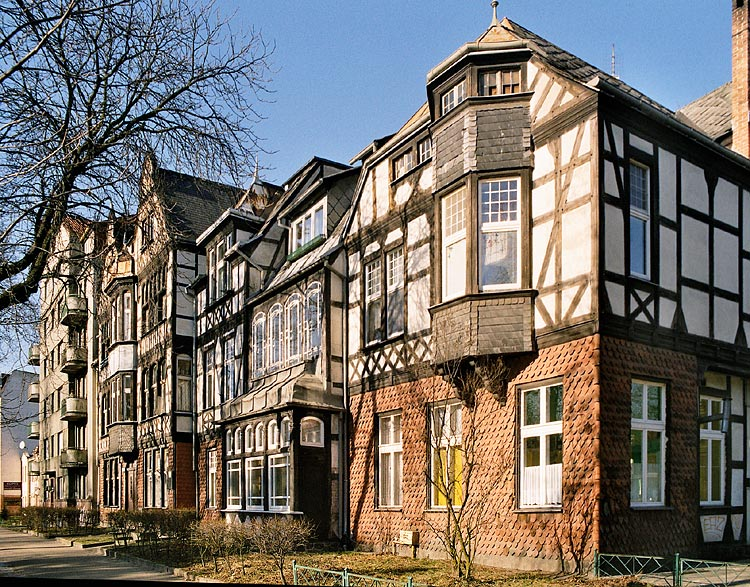 Toruń, half-timbered house in Bydgoskie district